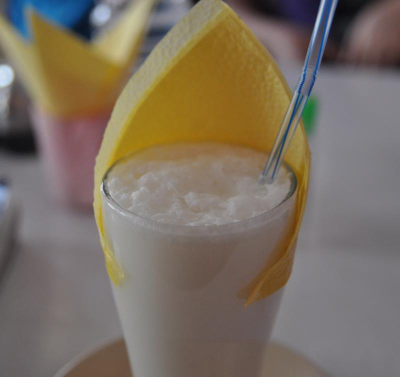 Lassi from nepal